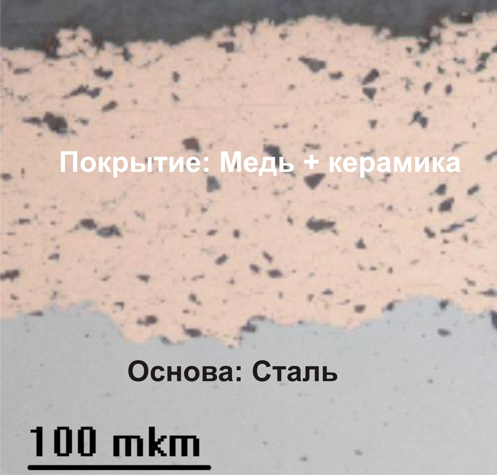 Cu+Al2O3 coating at steel deposited by LPCS